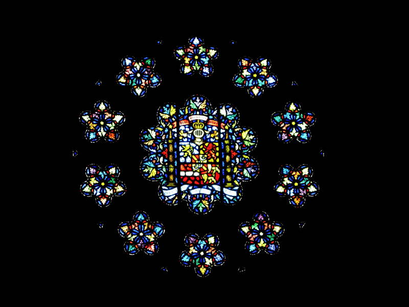 The stained glass rose window of the First Reformed Church of Schenectady, located in the rear of the sanctuary. The center of the window depicts the crest of the Reformed Church in America.